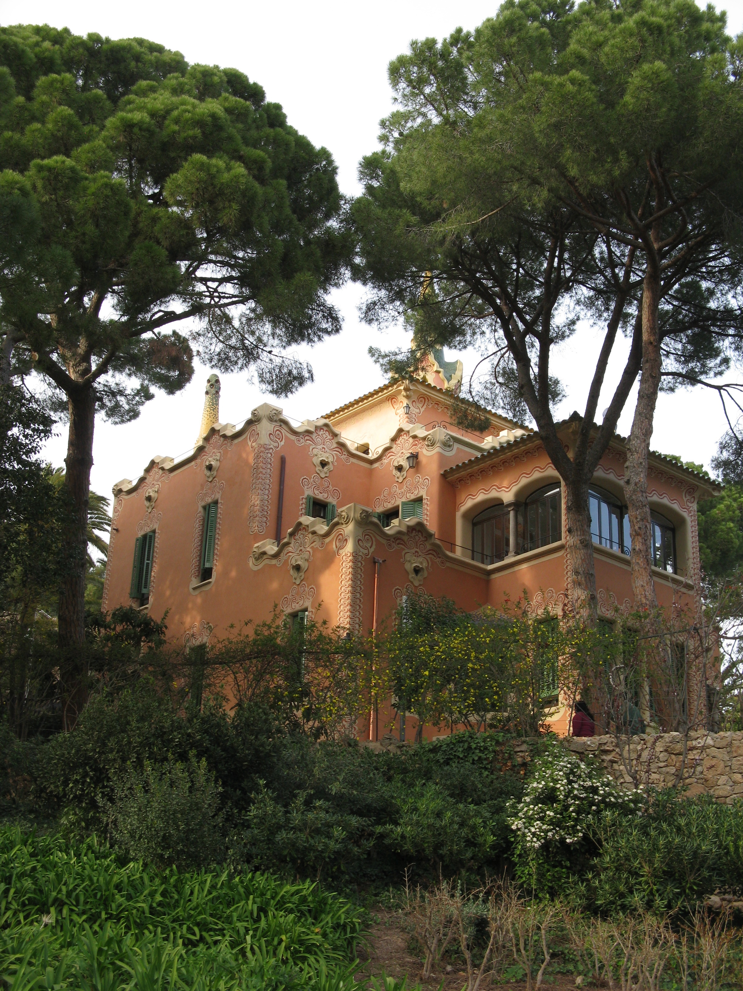 Casa Museu Gaudí